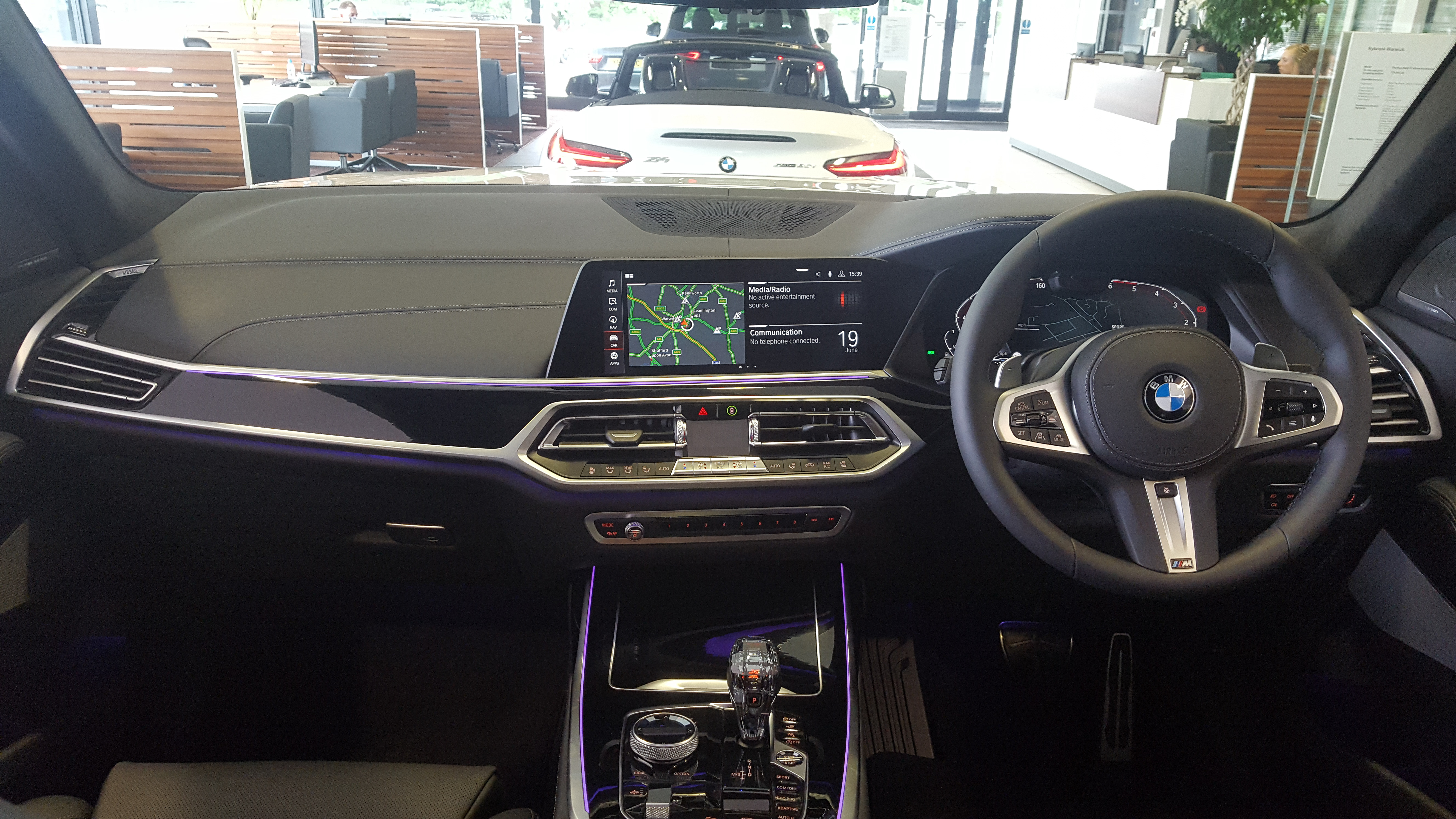 2019 BMW X7 xDrive30d M Sport 3.0 Interior Taken in Leamington Spa